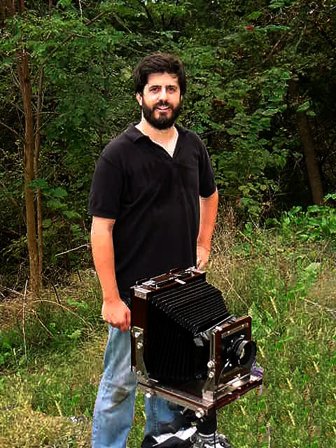 Alec Soth in 2007